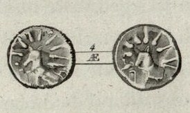 Coin of the koinon of the Keian cities, with a dog and a star, symbols of Sirius